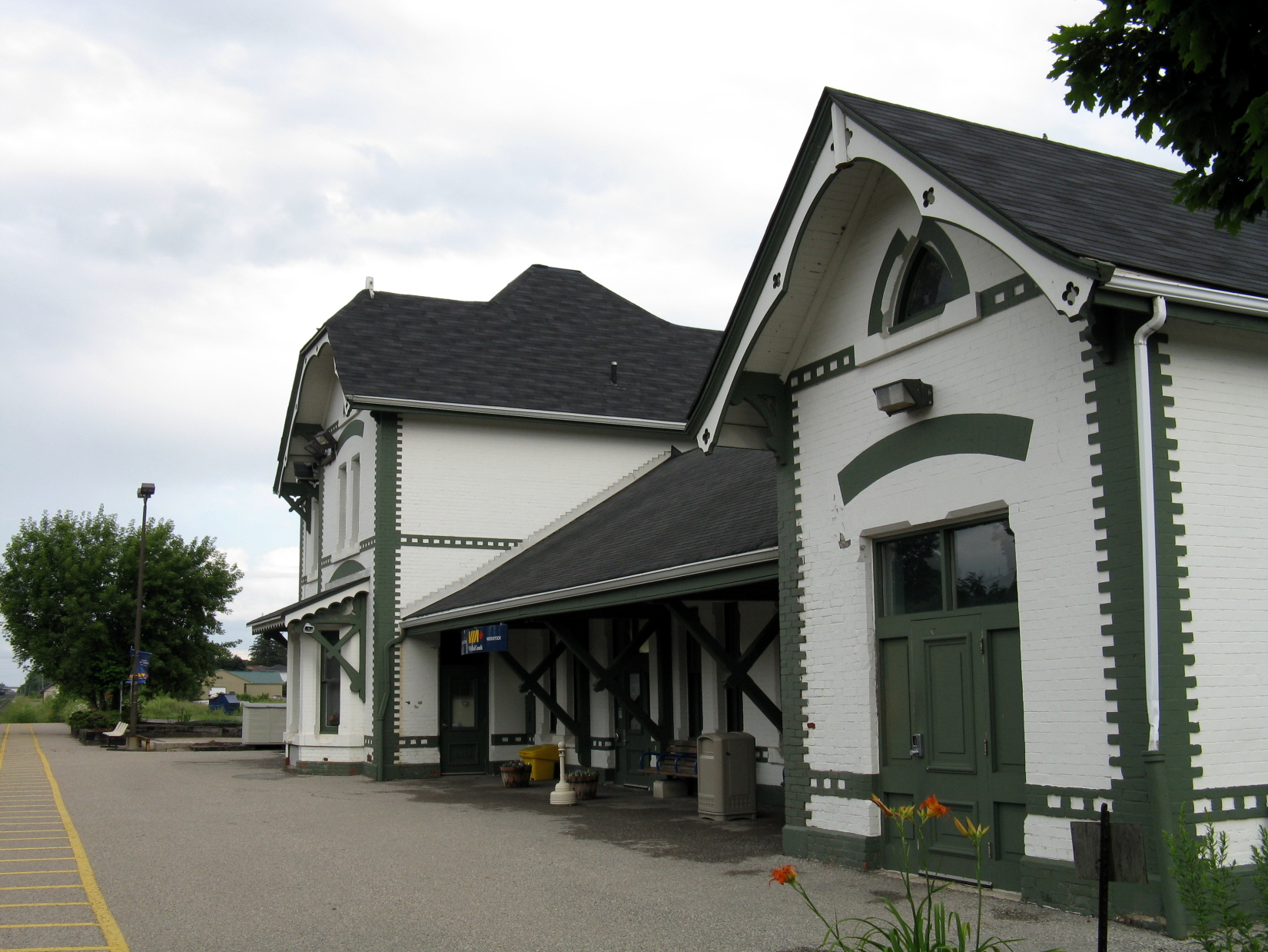 VIA Rail station in Woodstock, Ontario.